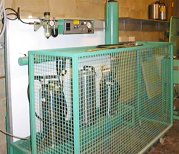 WHO compression sprayer test at IPARC - assessing fatigue in samples used for indoor residue spraying (IRS) against mosquitoes